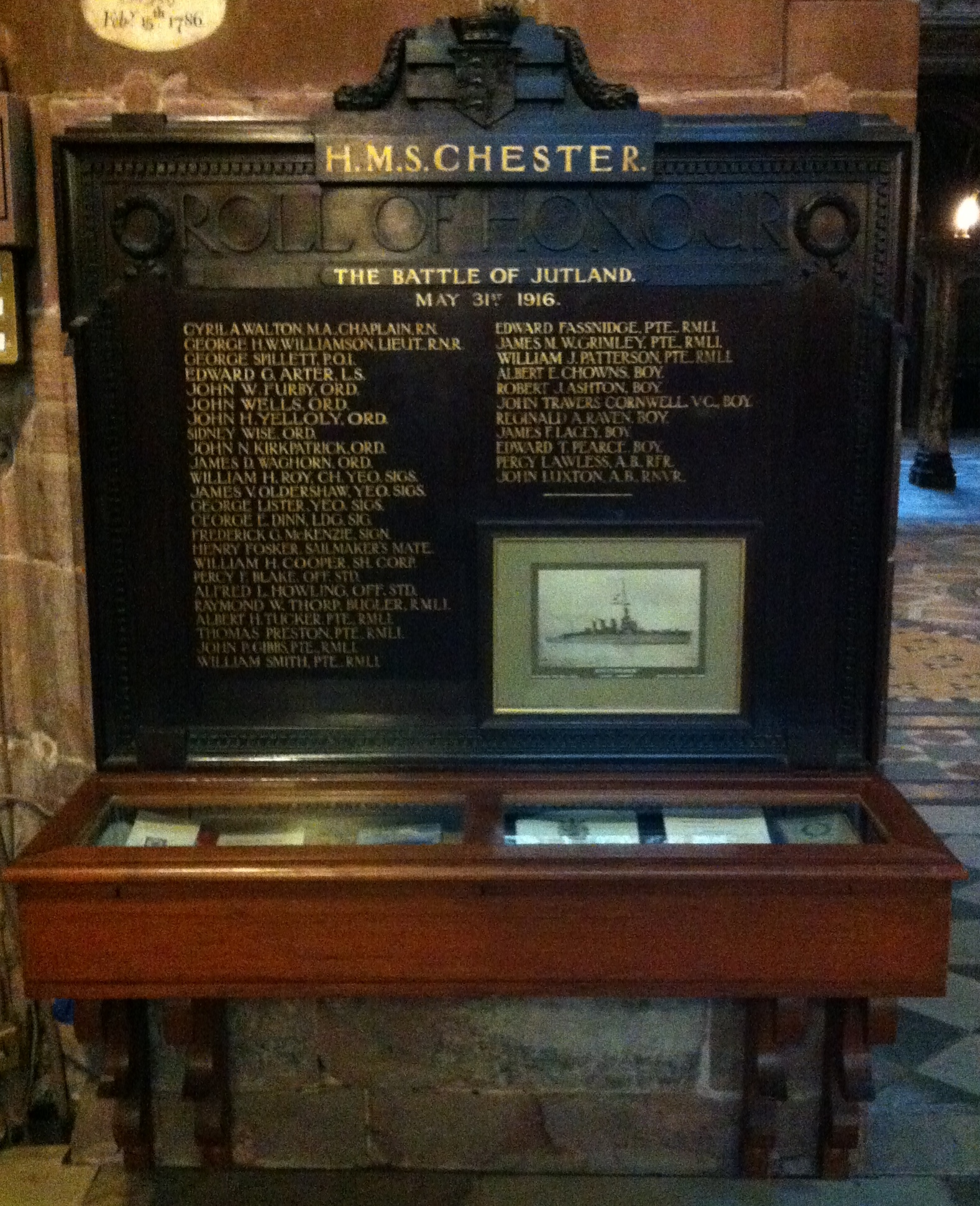 Memorial to 29 men killed and 49 wounded on HMS Chester on 31 May 1916 in the Battle of Jutland.